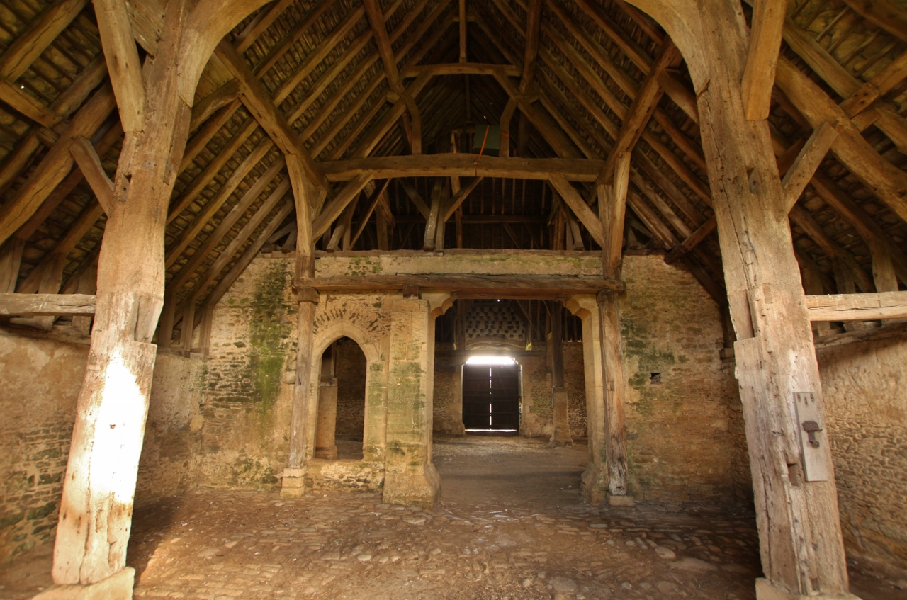 Inside the west porch of the Mediæval barn at Great Coxwell, Oxfordshire (formerly Berkshire), looking east toward the main part of the barn